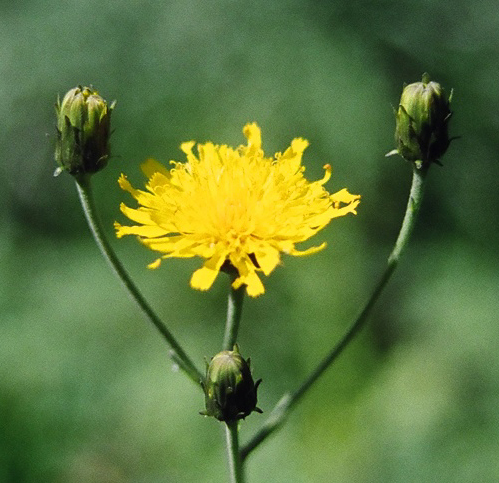 Narrow-leaved hawkweed (Hieracium umbrellatum) is a common sight in the Rockies. Its tall (up to a metre) stalks and dandelion-type blossoms make it easily identifiable. Its stalk contains a latex which was used by local tribes as chewing gum, but the plant has no notable medicinal properties. It is also sometimes called "Canada hawkweed". Ø2004 D. Windrim Captioned As { }